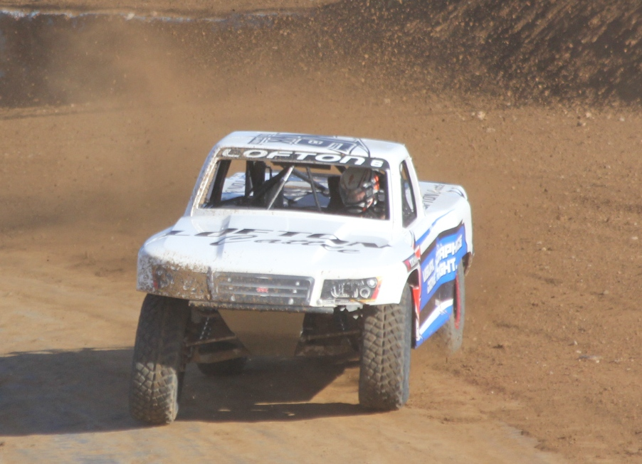 The Stadium Super Trucks vehicle of Justin Lofton.